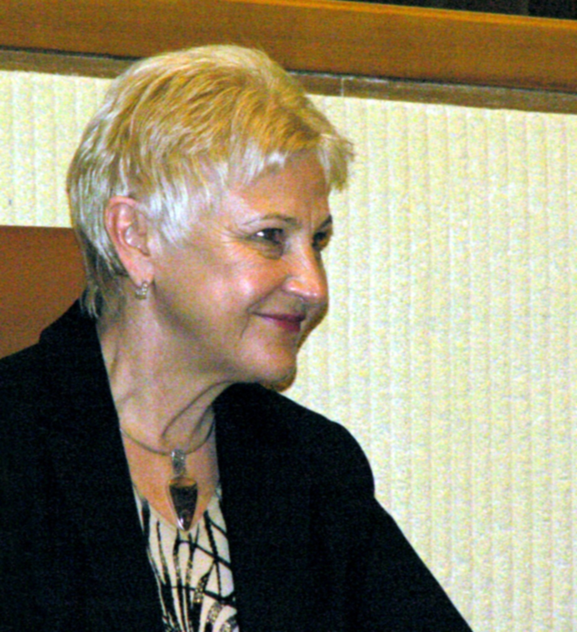 Irena Degutienė, politician of Lithuania, speaker of Seimas of Lithuania